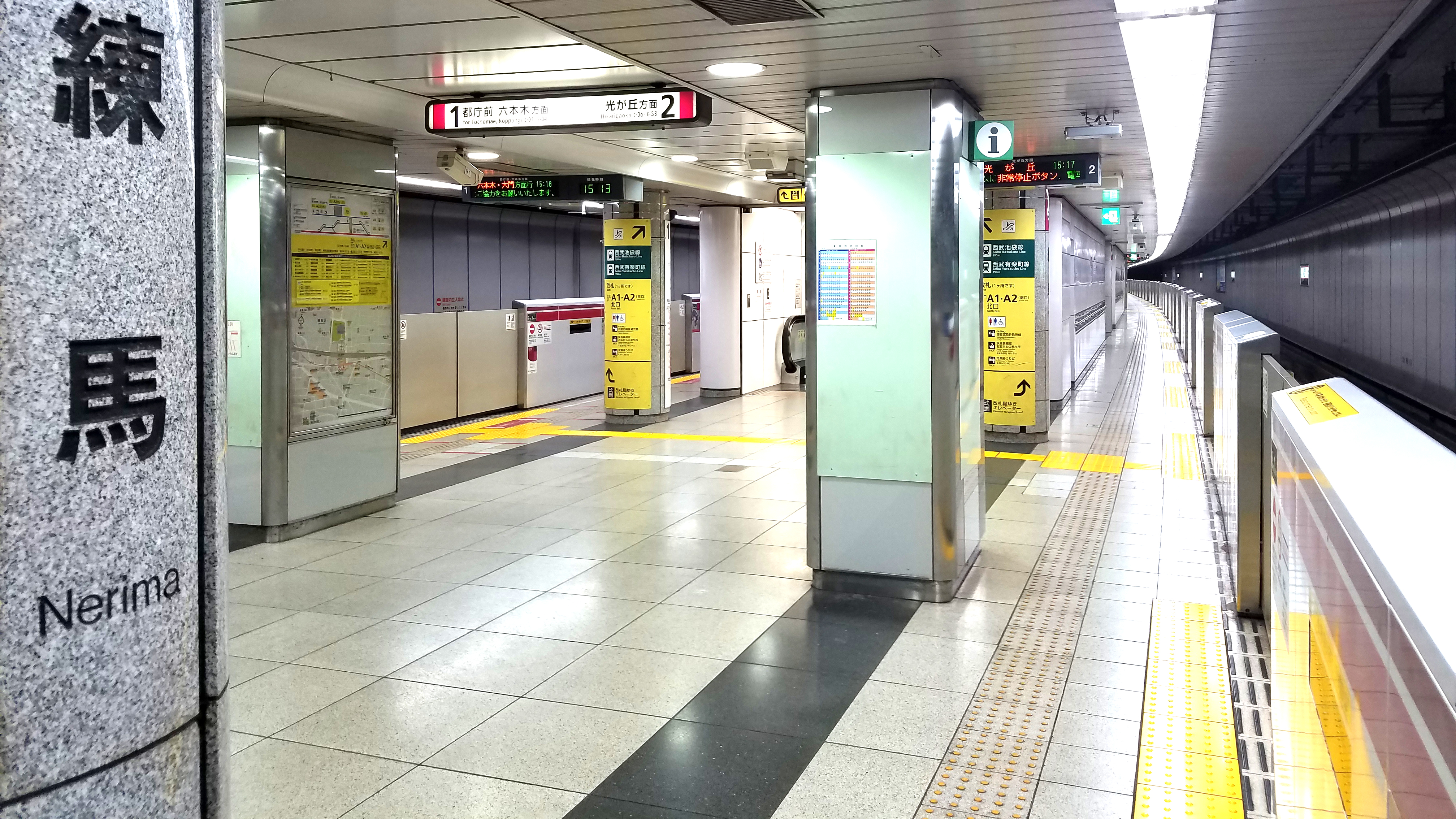 The platform at Nerima Station on the Toei Ōedo Line in Nerima city, Tokyo, Japan